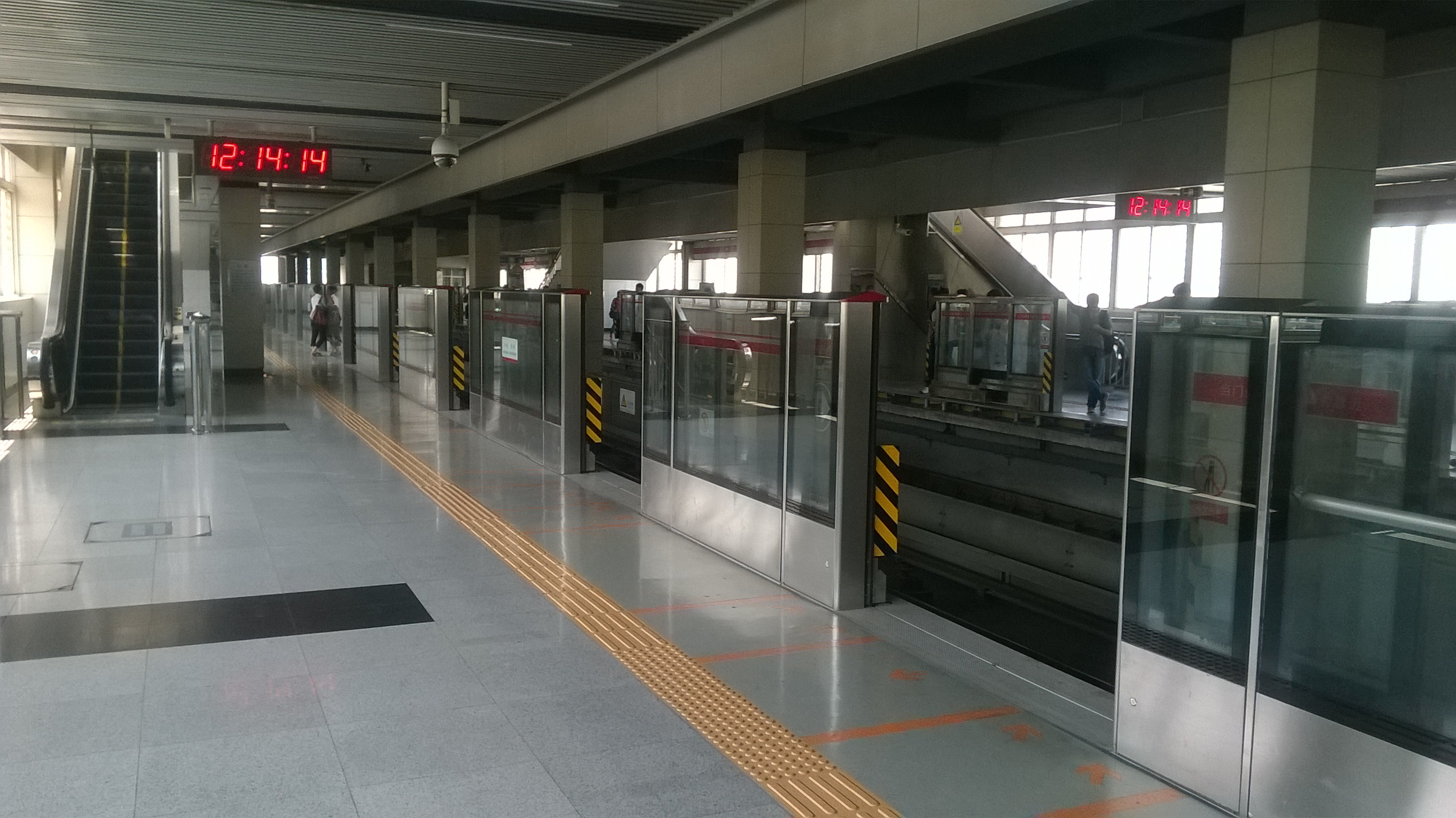 platform of Communication University of China Station, Batong Line, Beijing Subway, with platform screen doors